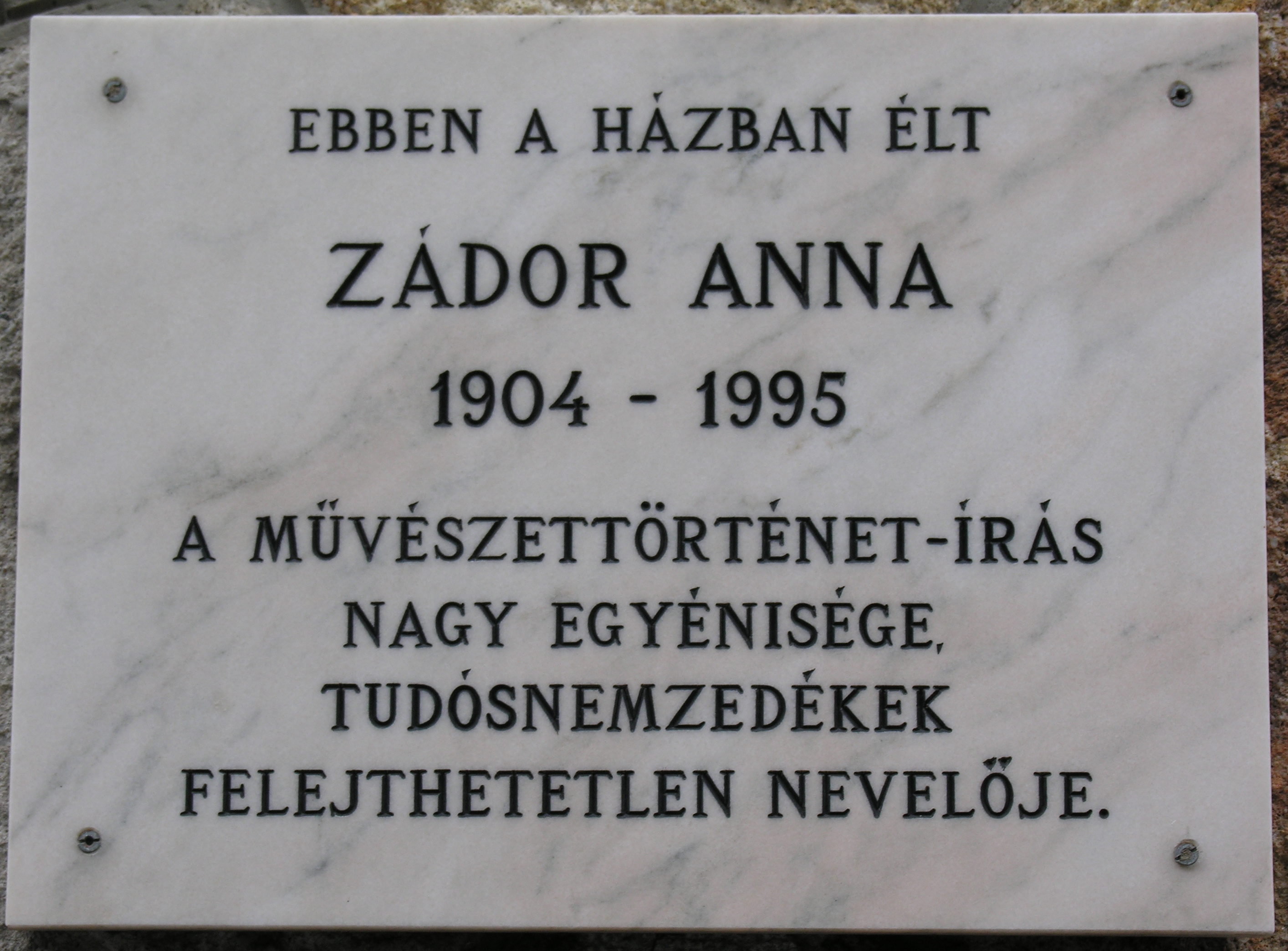 Anna Zádor commemorative plaque in Budapest District II, Rózsahegy Street No 1/b